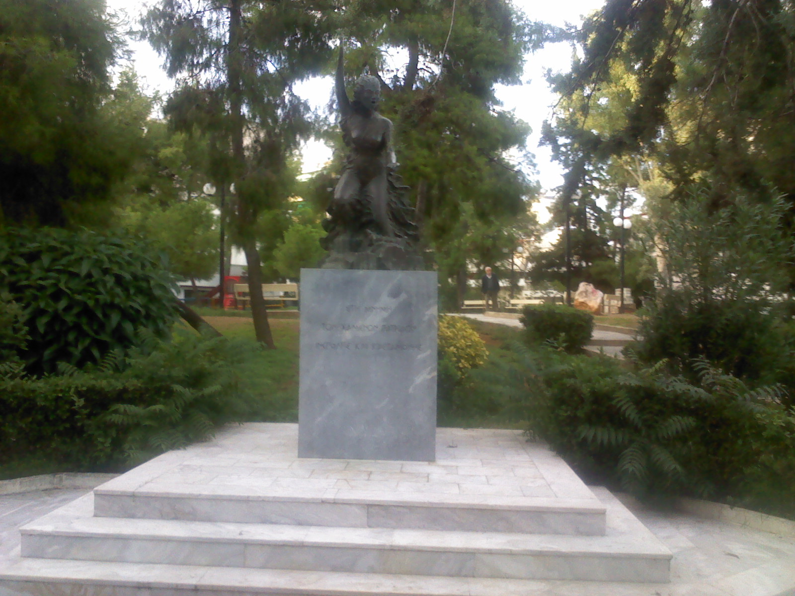 Sculpture Inepolis